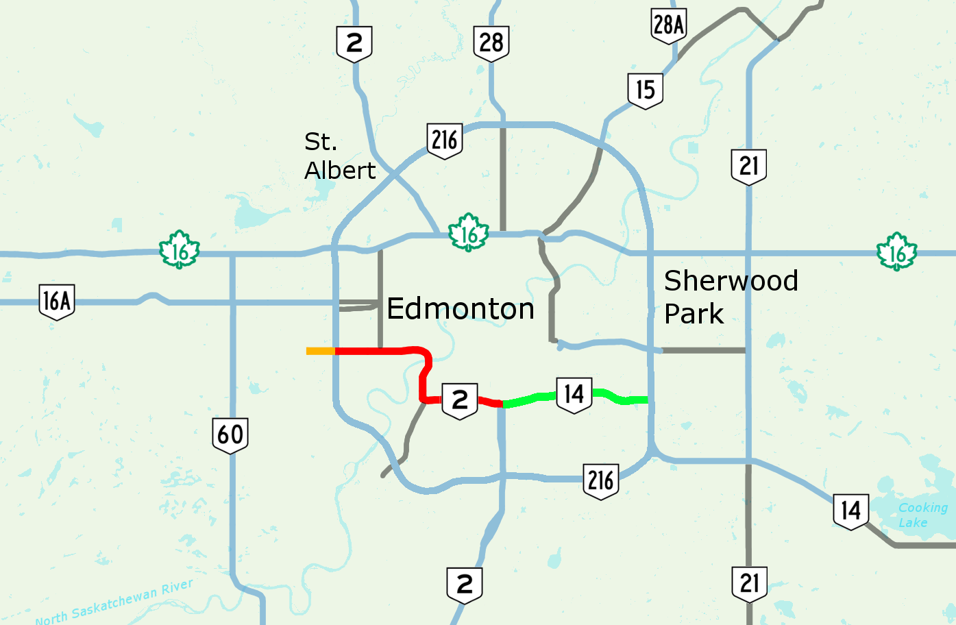 Created with OpenStreetMap